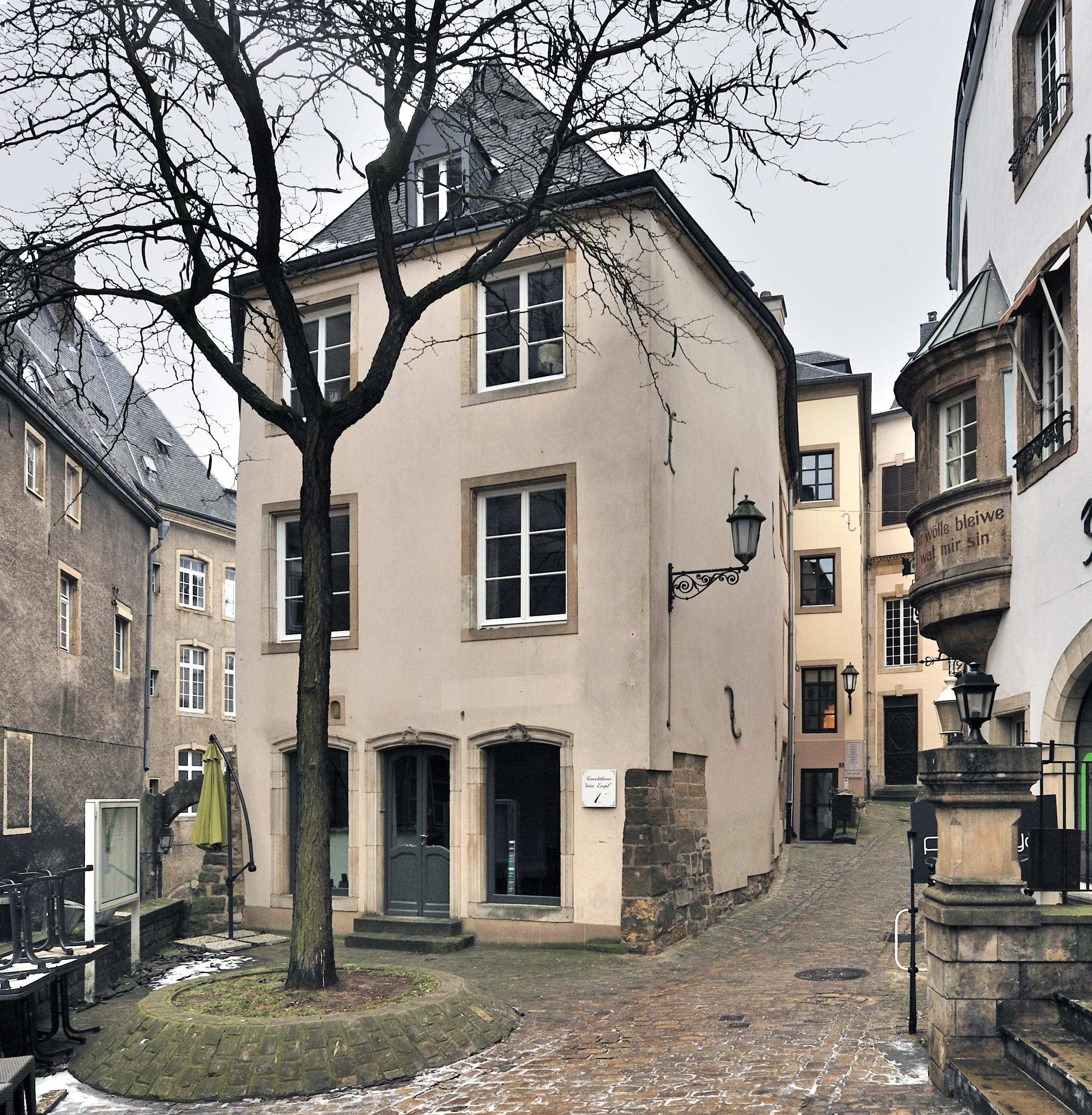 Luxembourg City, city centre: Konschthaus beim Engel at 1, rue de la Loge, as seen from place du Marché-aux-Poissons.